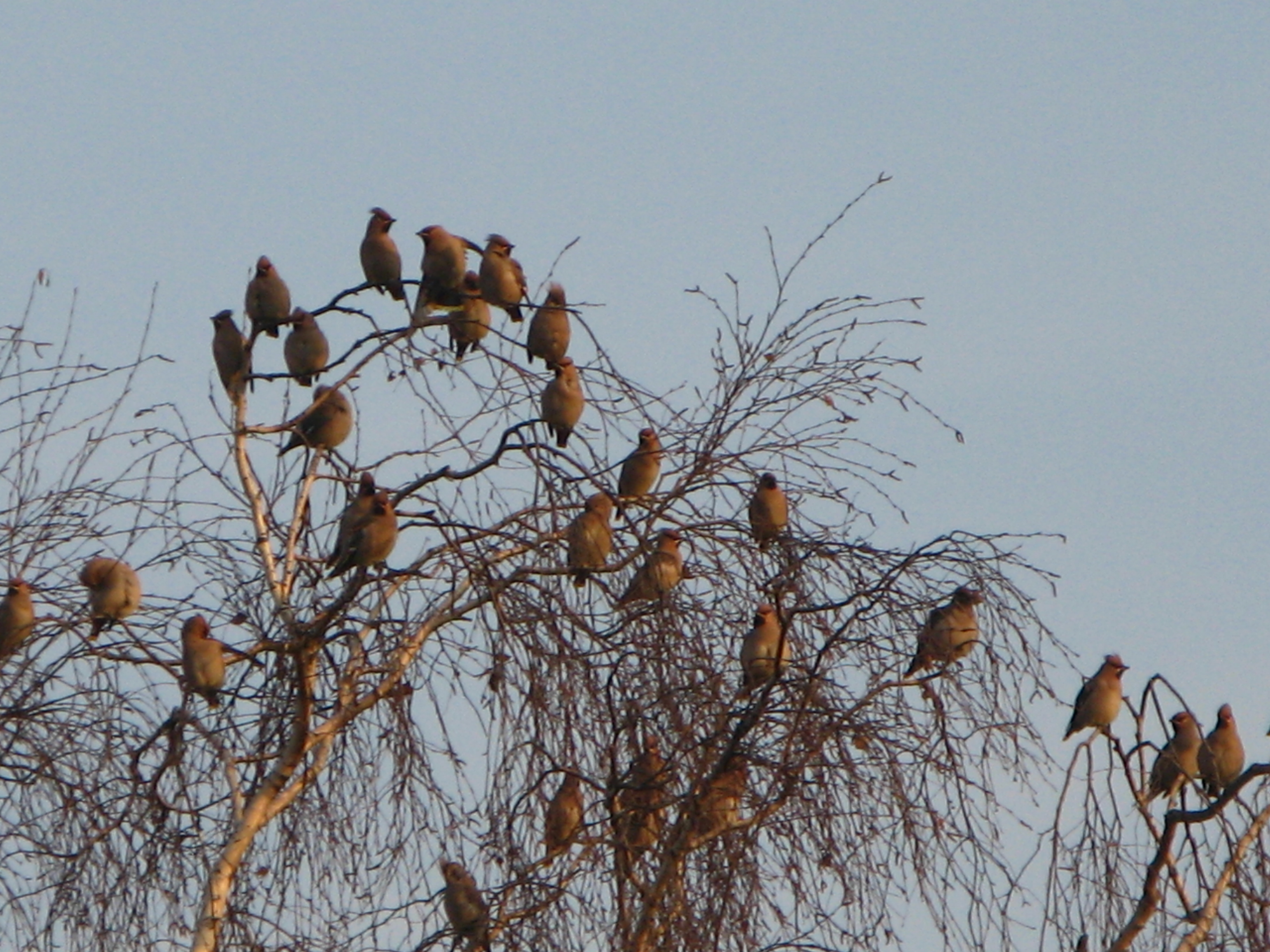 A flock of Bohemian Waxwings (Bombycilla garrulus) perching on a birch tree in winter in Poland.